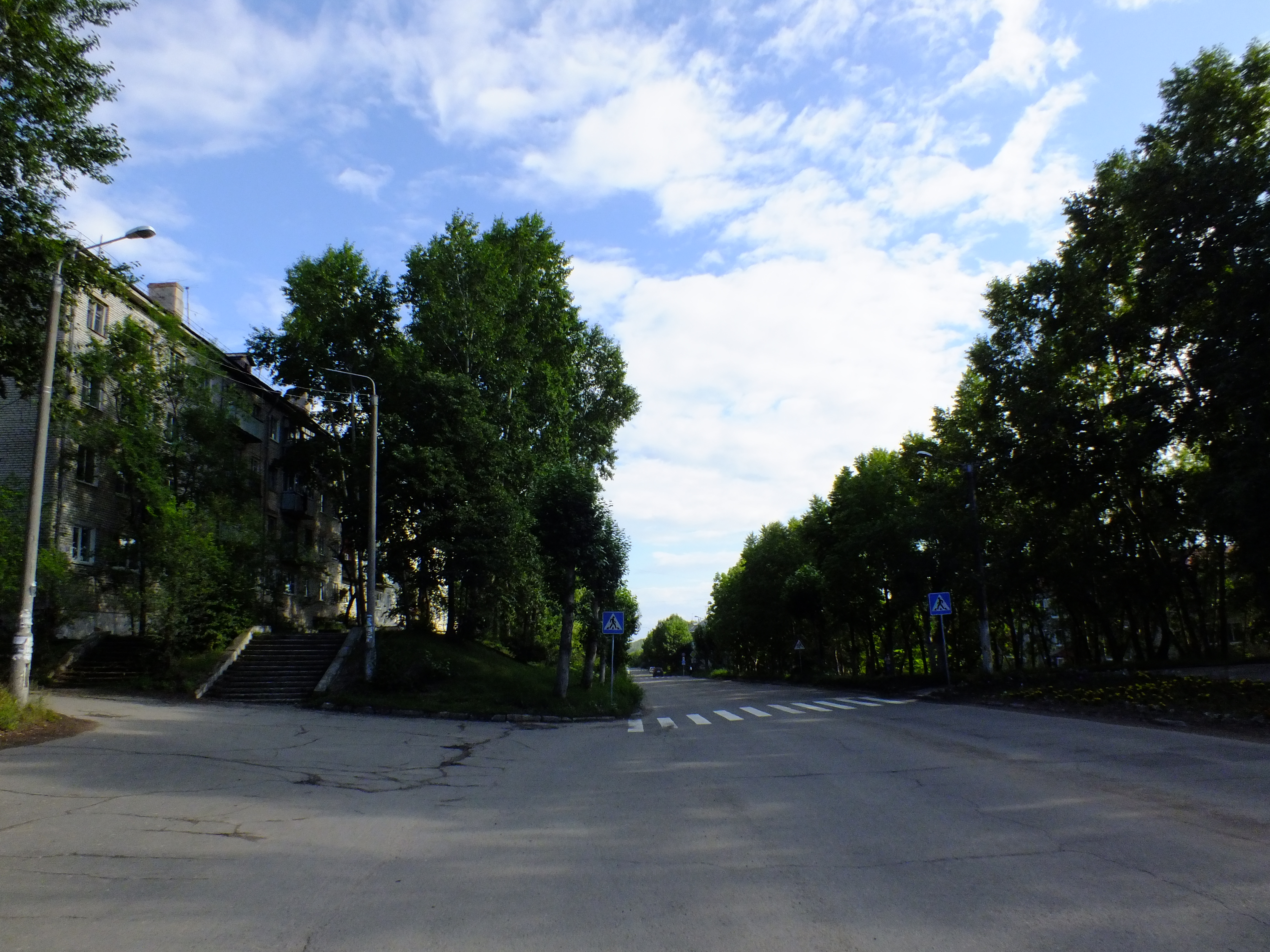 Amursk